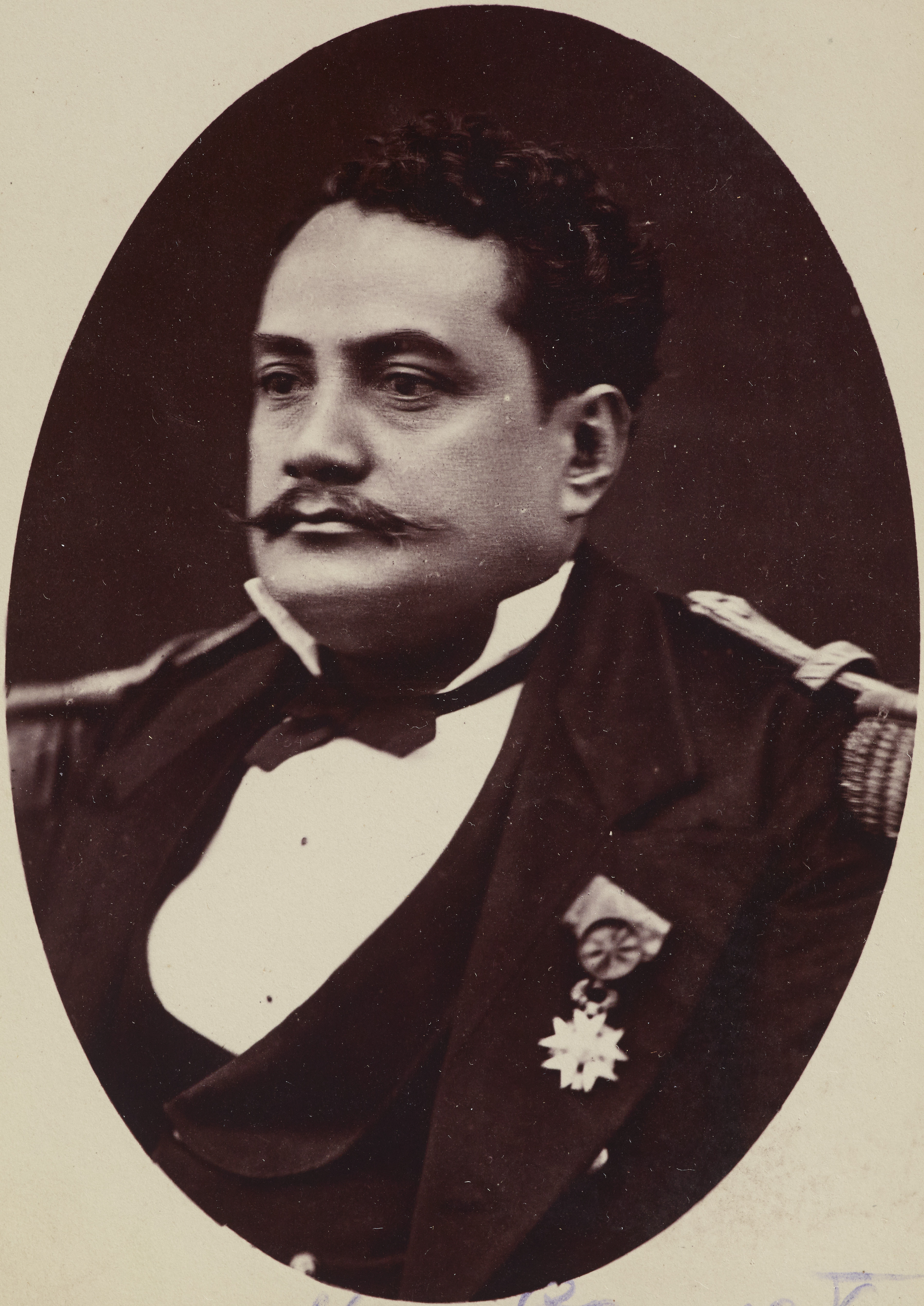 King Ariiane Pomaré V.